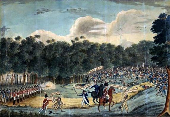 A painting by an unknown artist is of the Battle of Vinegar Hill, where several hundred convicts broke out of Castle Hill prison farm to take on the British redcoats. Photo: National Library of Australia